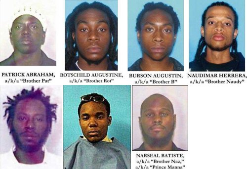 Seven men charged for trying to blow up the Sears Tower and some buildings in Miami-Dade county.